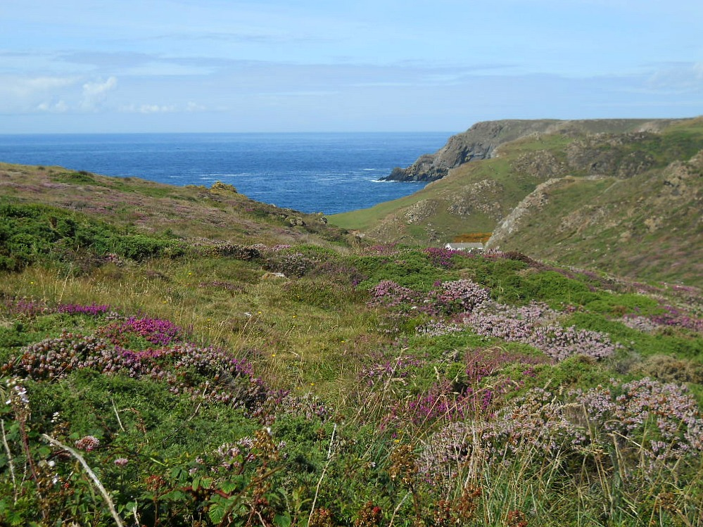 kynance cove, lizard peninsula